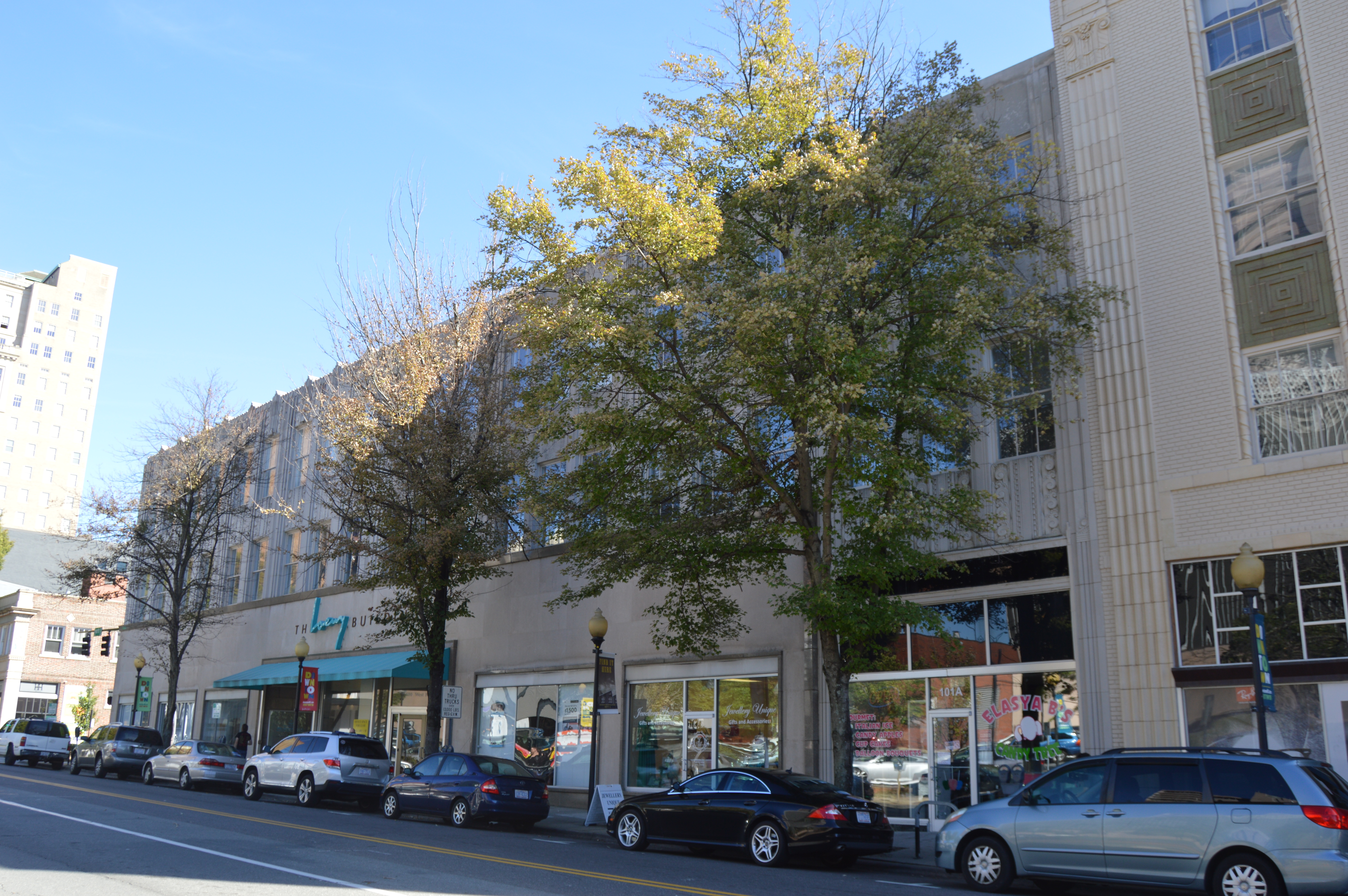 Front of the Sosnik-Morris-Early Commercial Block, located at 500 W. Fourth Street in Winston-Salem, North Carolina, United States. Built in 1929, it is listed on the National Register of Historic Places.